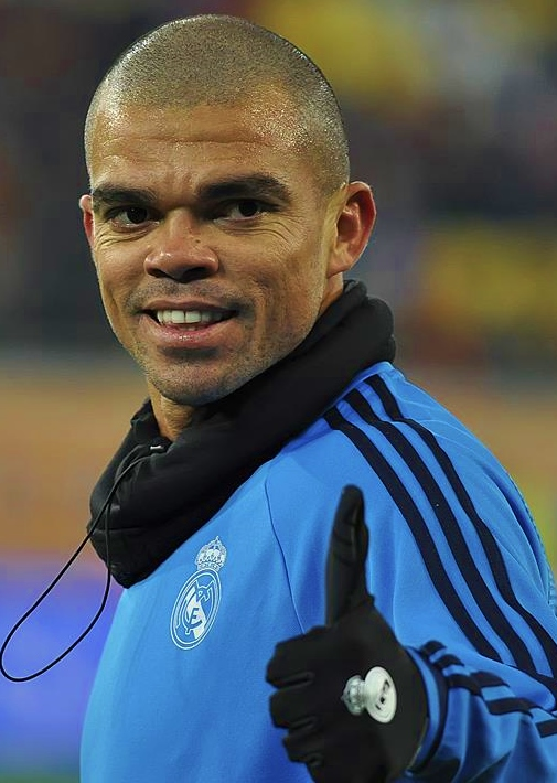 Pepe 2015